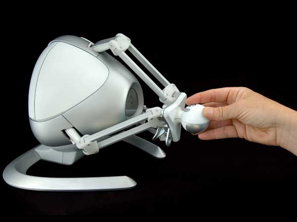 The Novint Falcon 3D touch (haptic) controller